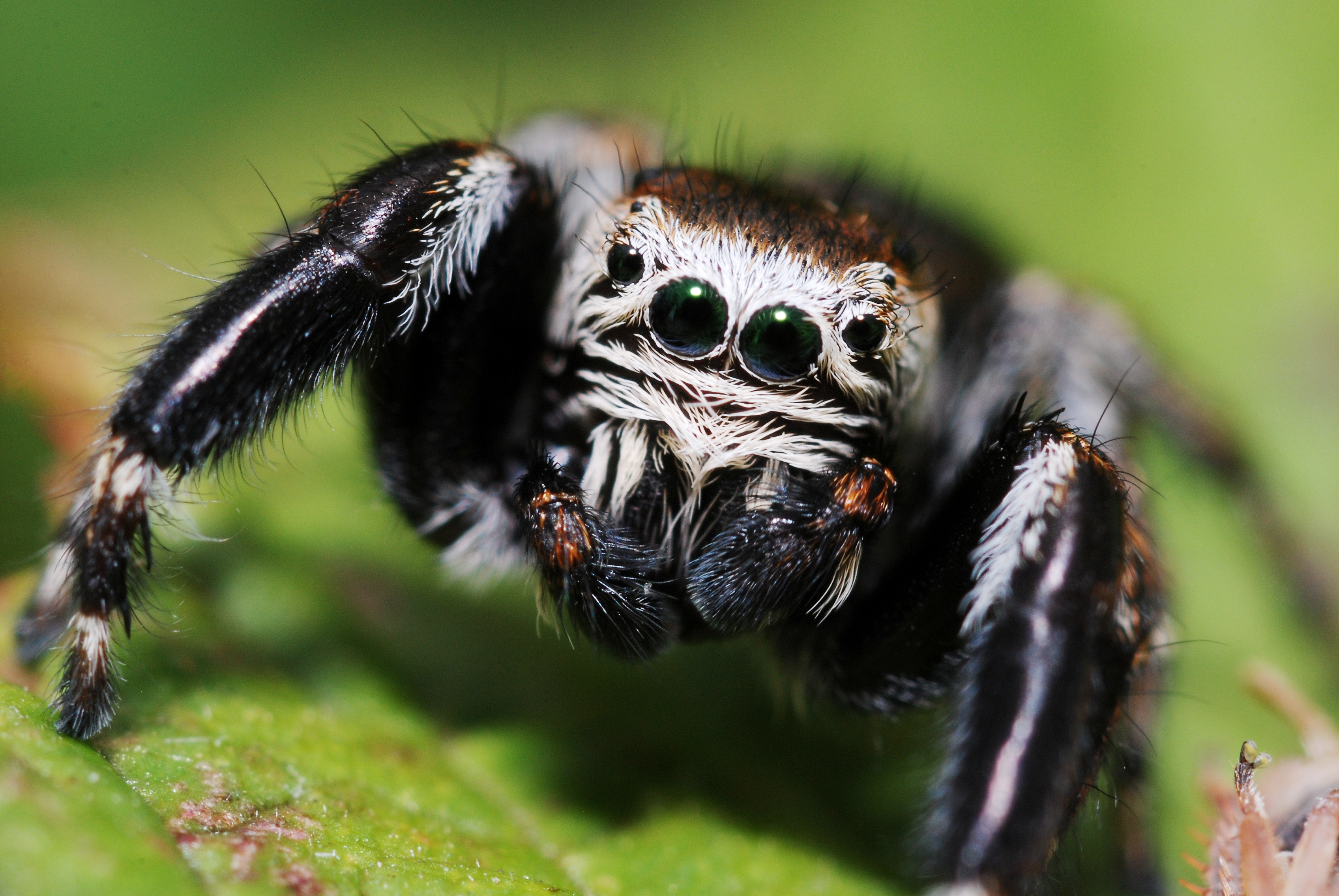 A male of the jumping spider Evracha probably arcuata. Technical settings : single shot with 60 mm micro-Nikkor on 68 mm extension tubes (uncroped)